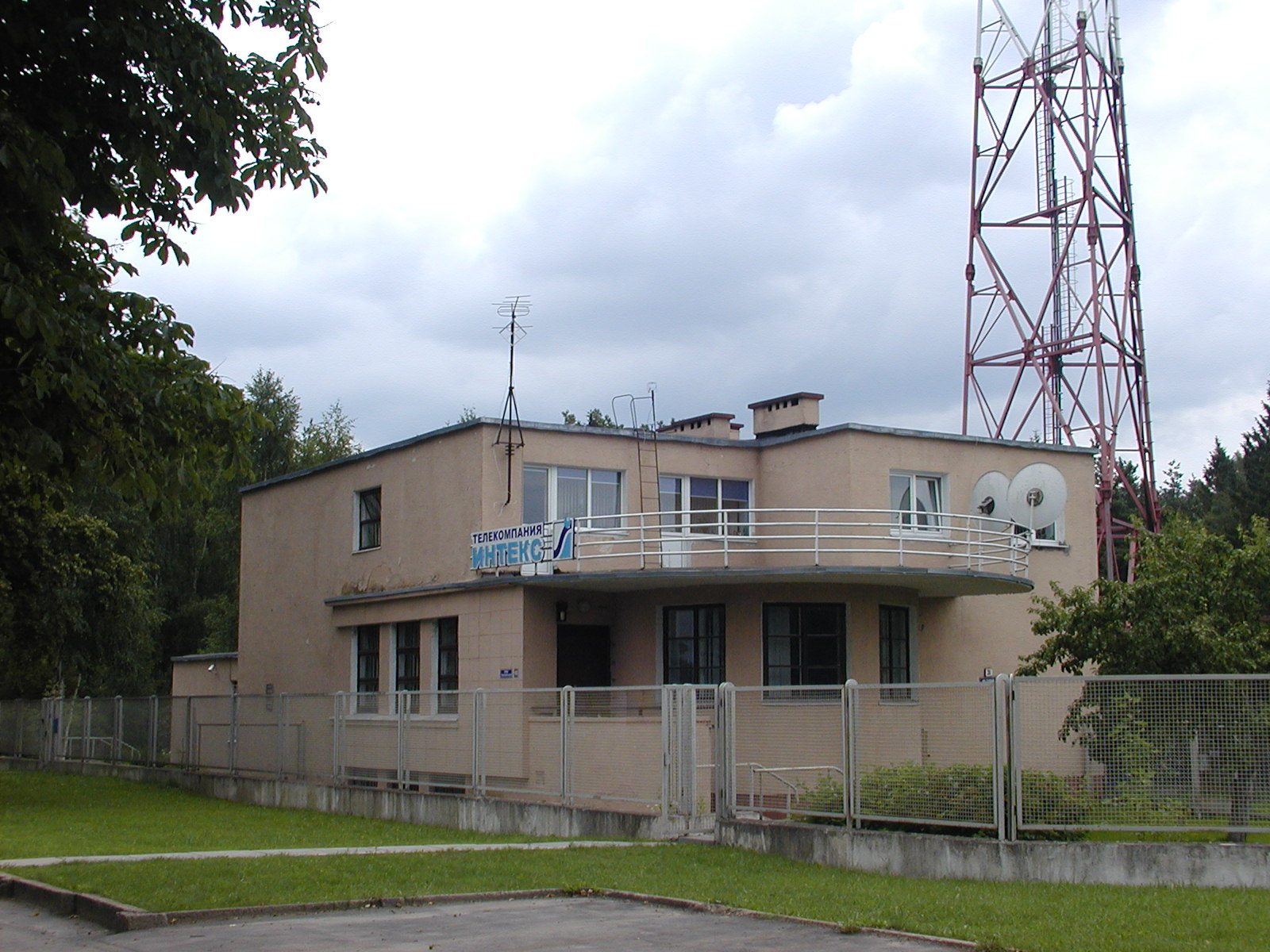 Polish Radio station Baranawicze (1938-1945), radio station stubs (1945-1991). Now TV Intex (Baranavichy)